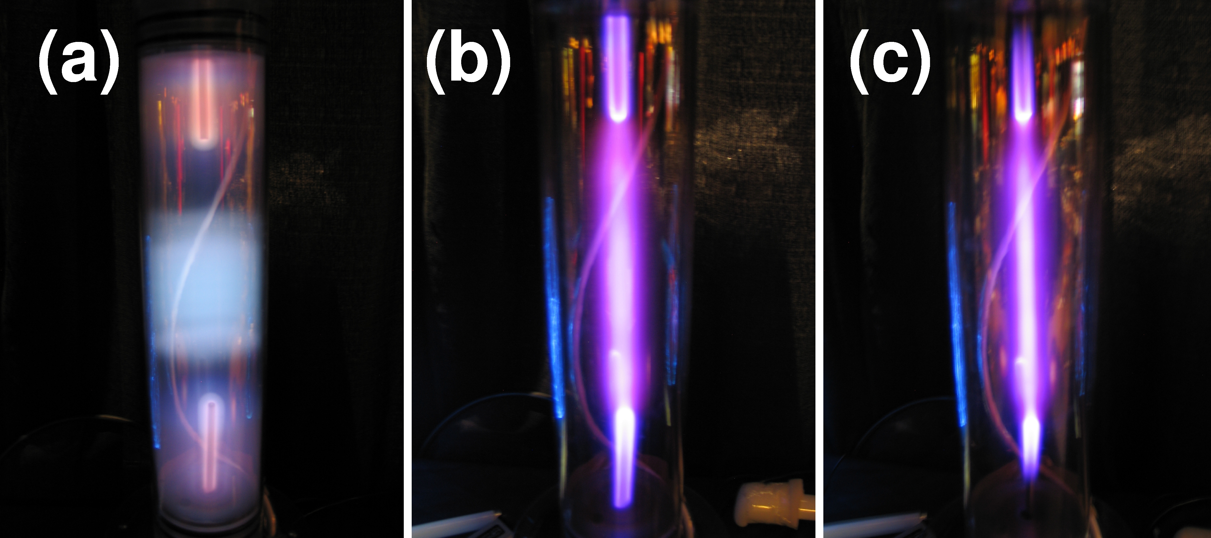 Transition from a glow discharge in Argon, to an arc, by increasing the pressure of the filling gas. The experiment was performed on November 21, 2008, at the American Physical Society Plasma physics exhibit at Dallas, TX.